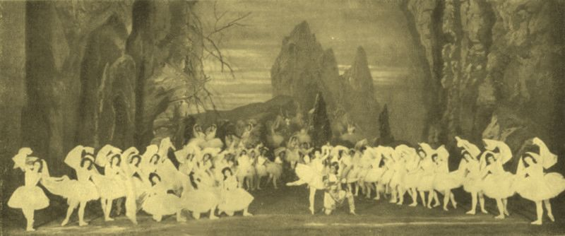 Portrait of the stage of the Imperial Mariinsky Theatre with performers in act III of the choreographer Marius Petipa's (1818-1910) final revival of his and the composer Ludwig Minkus's (1826-1917) ballet La Bayadère. In the center is the ballerina Mathilde Kschessinskaya (1872-1971) and the danseur Pavel Gerdt (1844-1917).